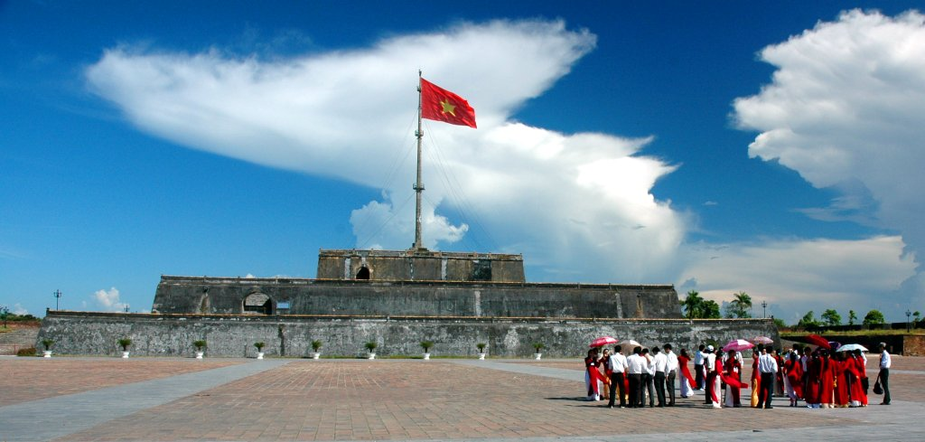 The Flag Tower in Hue, Vietnam